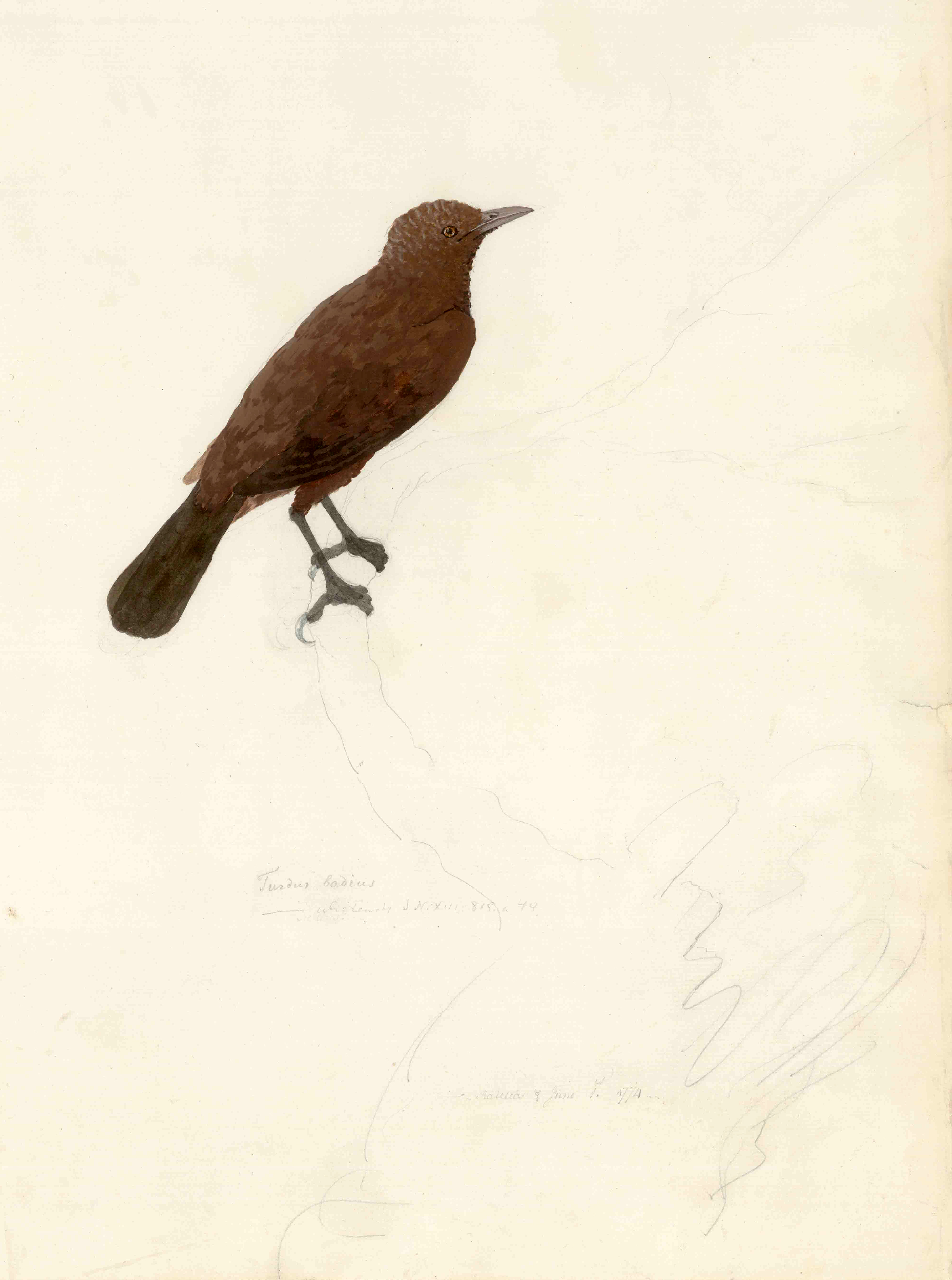 Watercolour painting by Georg Forster of Turdus ulietensis from Raiatea.